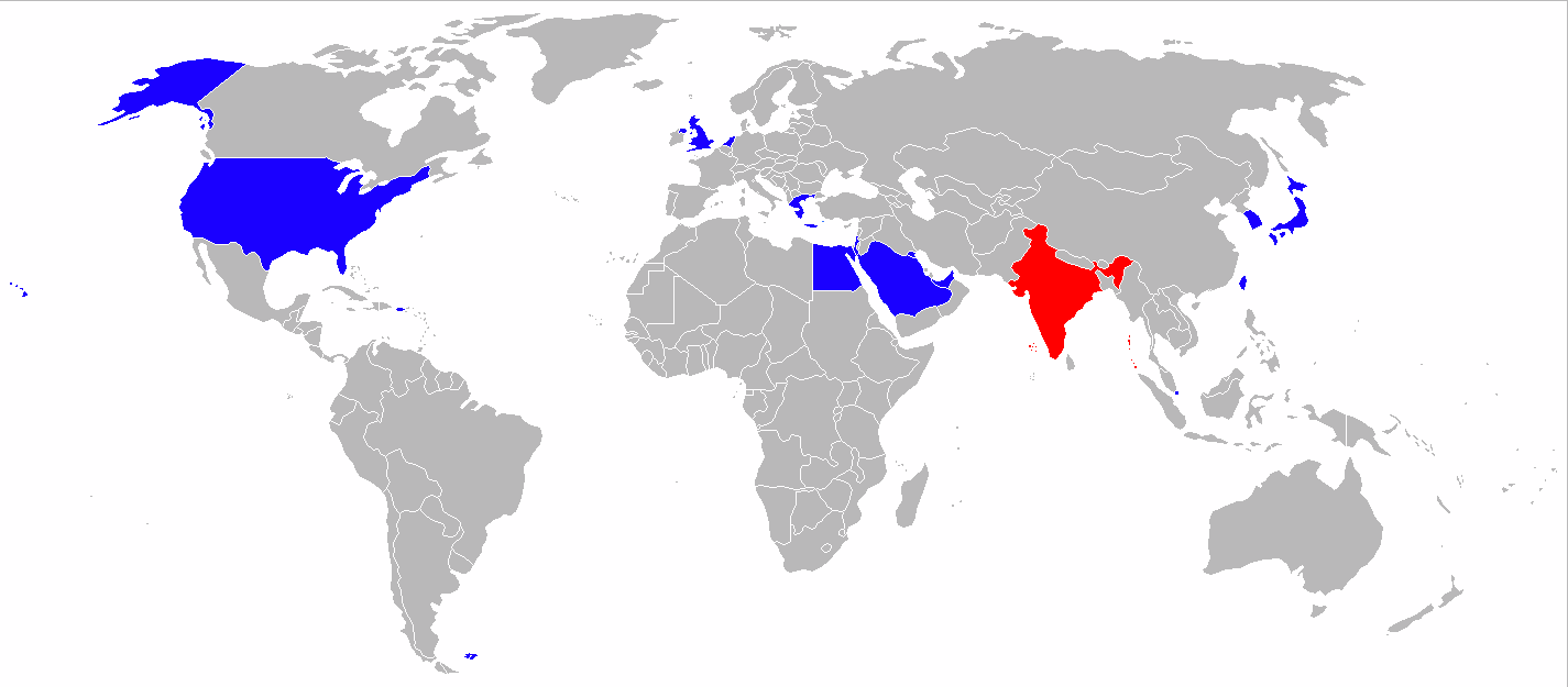 Operators of Ah-64 A blank map of the world as of 2008, with country outlines, for making country locator maps. This map uses the Robinson projection centered on the Greenwich Prime Meridian and includes various ... (?)